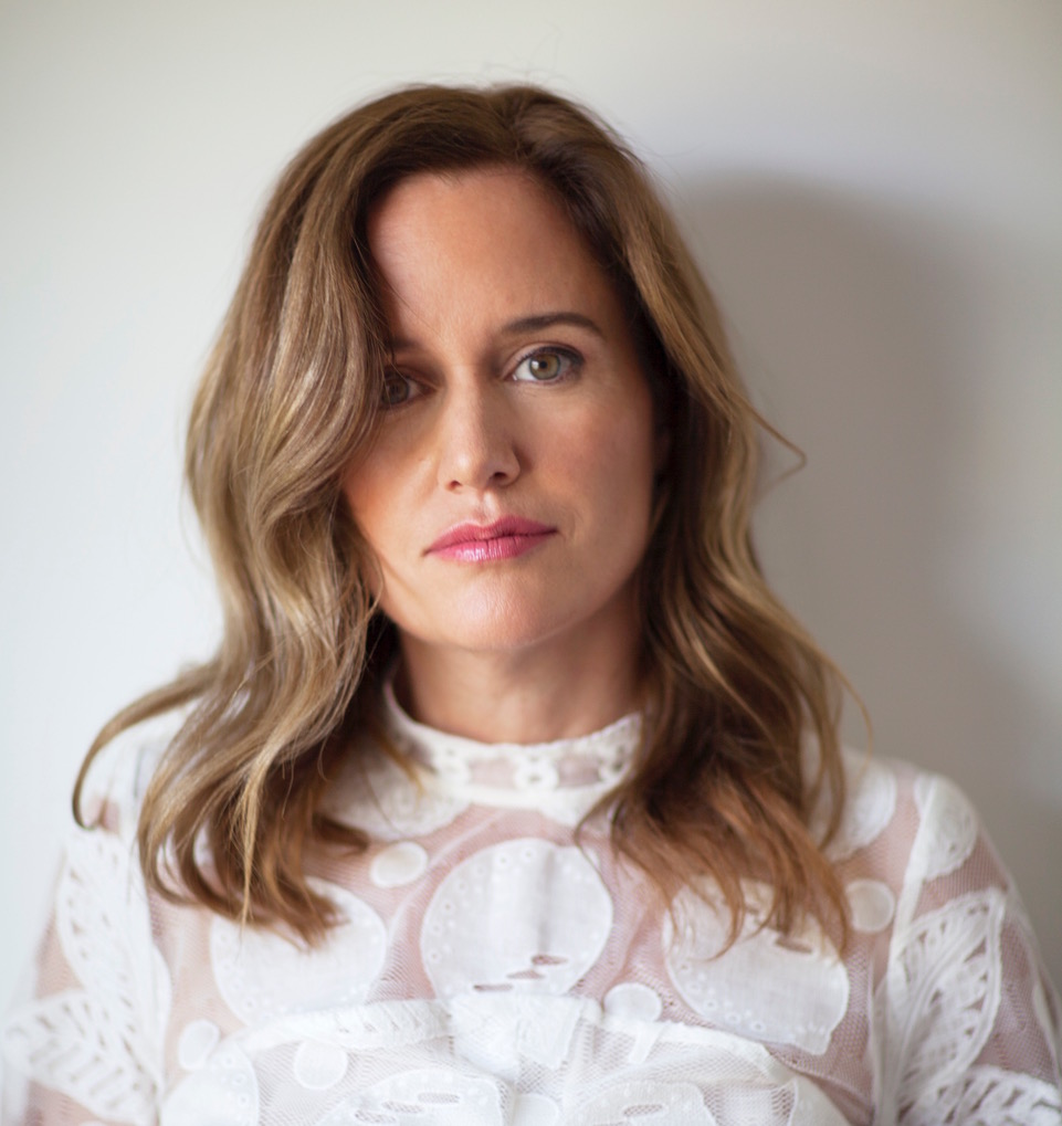 Author Heather Havrilesky in Los Angeles, California, United States.